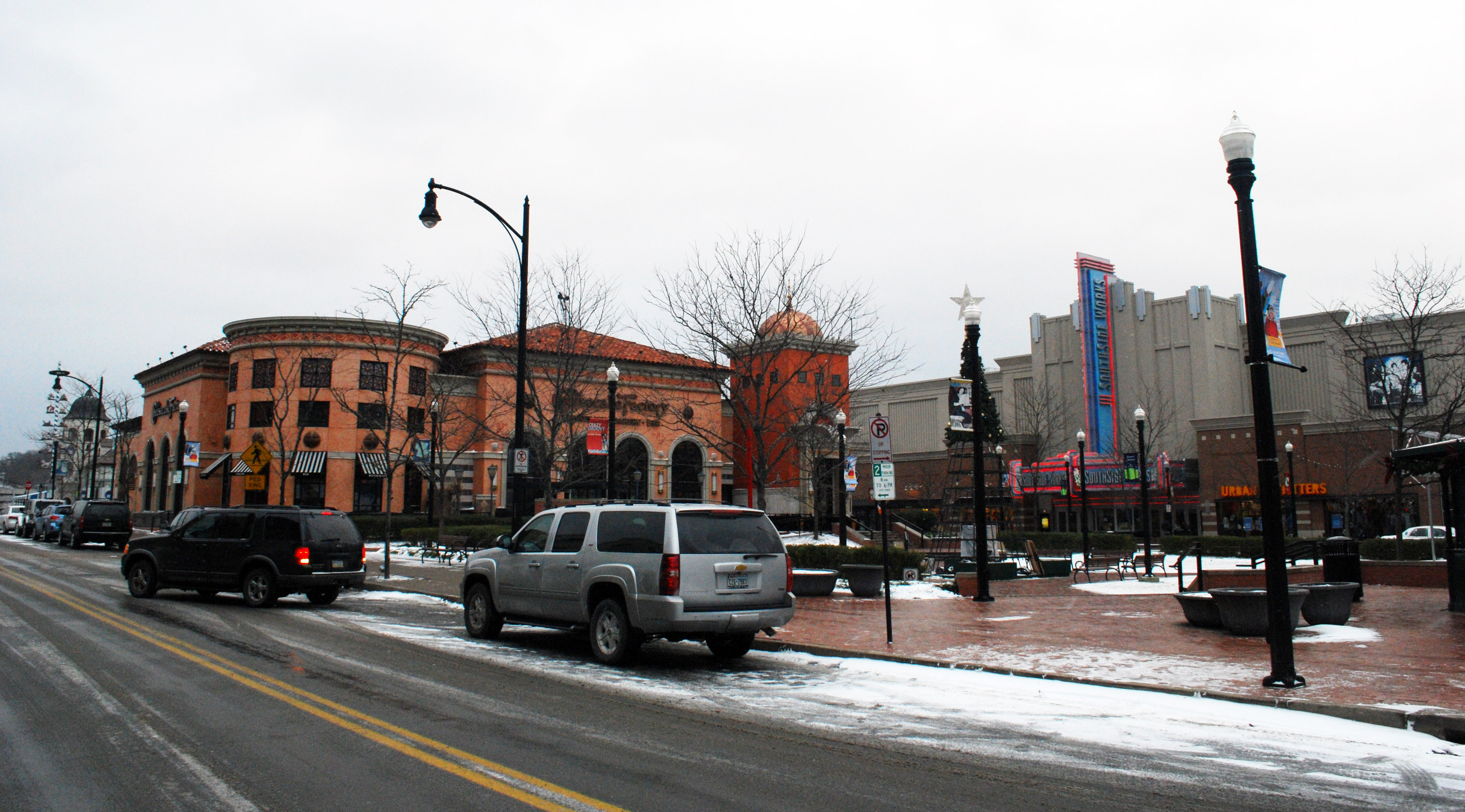 Shops, restaurants, and cinema of the SouthSide Works development in South Side (Pittsburgh)